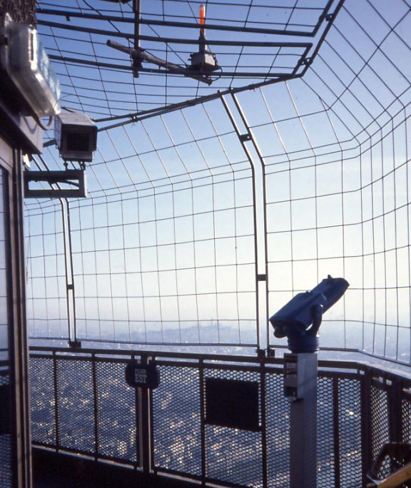 Observation platform of the Eiffel Tower in Paris (France)